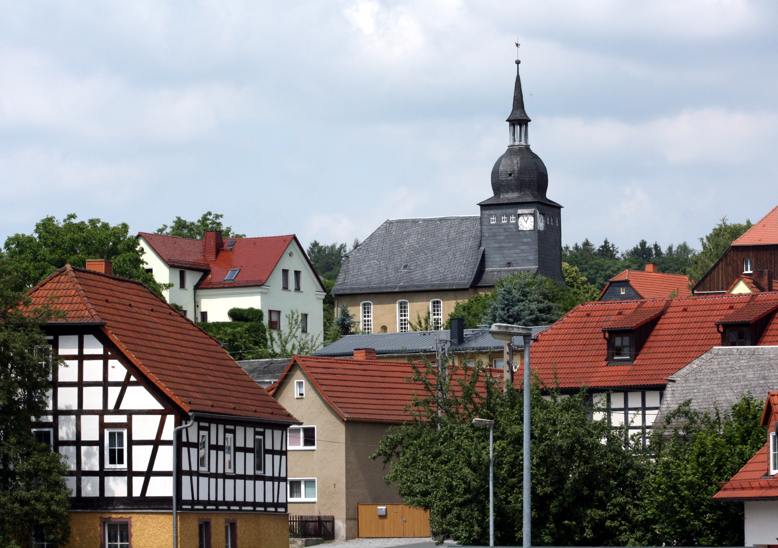 View into Steinsdorf near Greiz/Thuringia